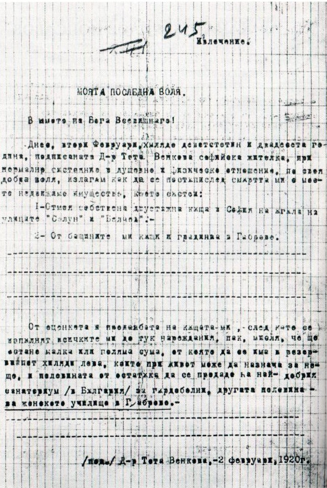 Last will of Tota Venkova